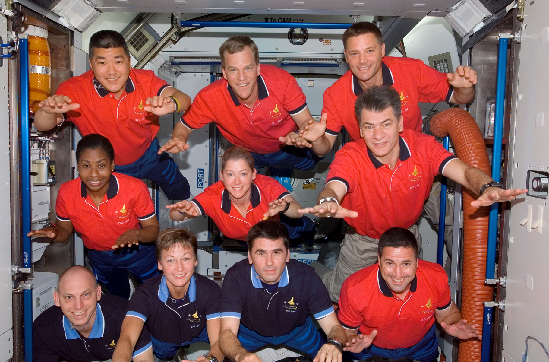 STS-120 and Expedition 16 crewmembers pose for a group photo following a joint news conference in the Harmony node of the International Space Station while Space Shuttle Discovery is docked with the station. From the left (bottom) are astronauts Clayton Anderson, STS-120 mission specialist; Peggy A. Whitson, Expedition 16 commander; cosmonaut Yuri I. Malenchenko, Expedition 16 flight engineer representing Russia's Federal Space Agency; and George Zamka, STS-120 pilot. From the left (center) are astronauts Stephanie Wilson, STS-120 mission specialist; Pam Melroy, STS-120 commander; and Paolo Nespoli, mission specialist representing the European Space Agency (ESA). From the left (top) are astronauts Daniel Tani, Expedition 16 flight engineer; Scott Parazynski and Doug Wheelock, both STS-120 mission specialists.